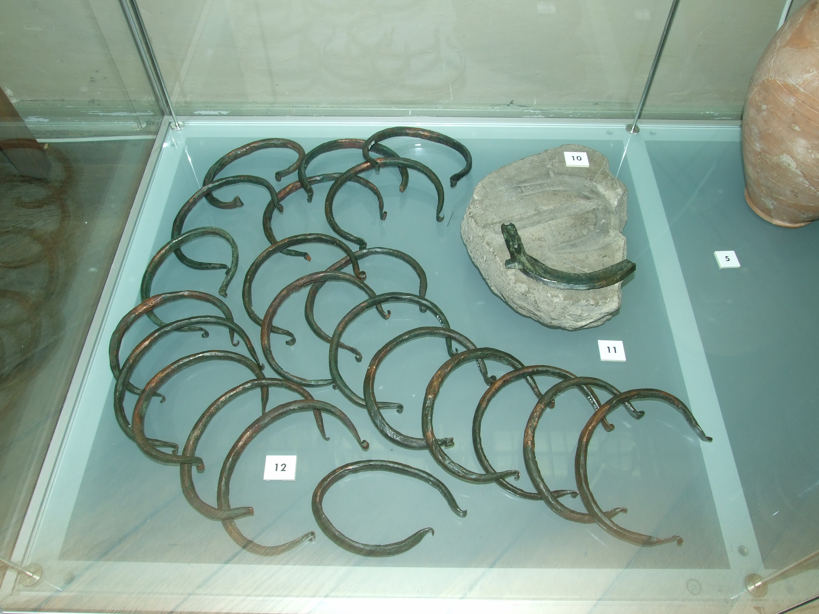 Prehistoric Times of Bohemia, Moravia and Slovakia, National Museum in Prague. Bronze working 10. Stone mould for axes (Prague-Hloubětín; Bronze Age) 11. Bronze sickle (Rýdeč; Late Bronze Age) 12. Copper ??? from the hoard (Hořovičky; Early Bronze Age)